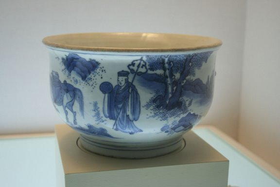 A Chinese Ming Dynasty (1368-1644 AD) blue-and-white porcelain bowl from the reign of the Chongzhen Emperor (1627-1644 AD).